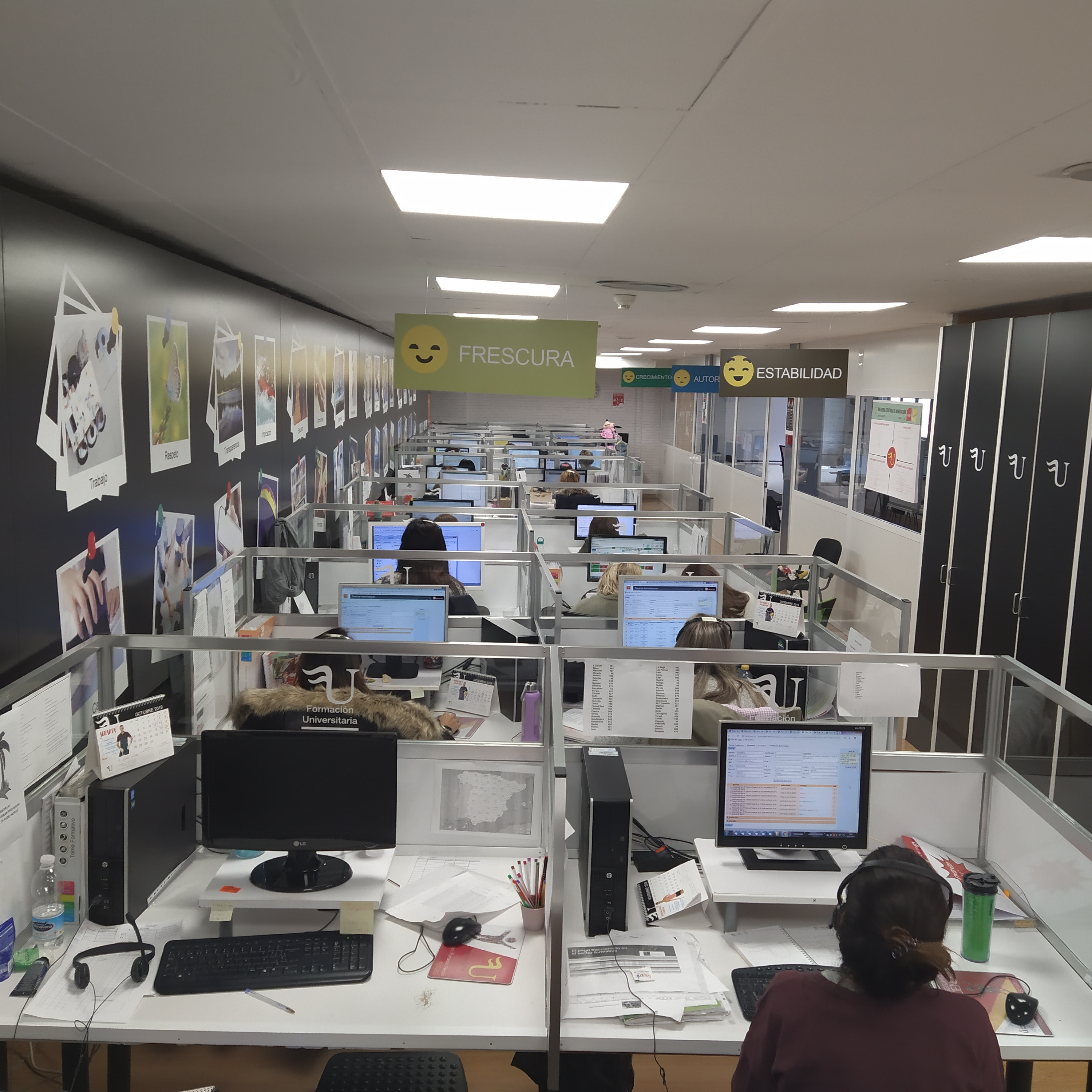 Formación Universitaria SL